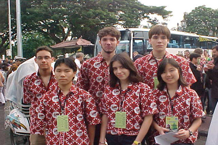 Equpe brasileira da IJSO 2005.